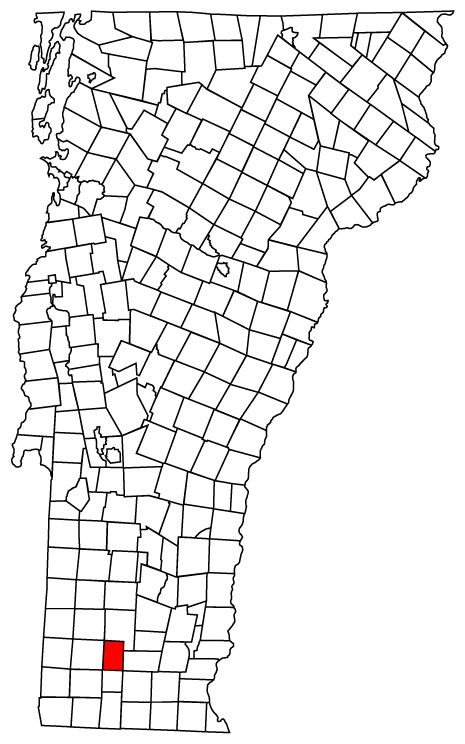 Description: Map of Vermont towns with Somerset highlighted Source: Map created by Jared C. Benedict on 26 March 2004. Copyright: © Jared C. Benedict.